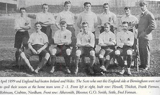 England national football team, posing before a match v Wales.